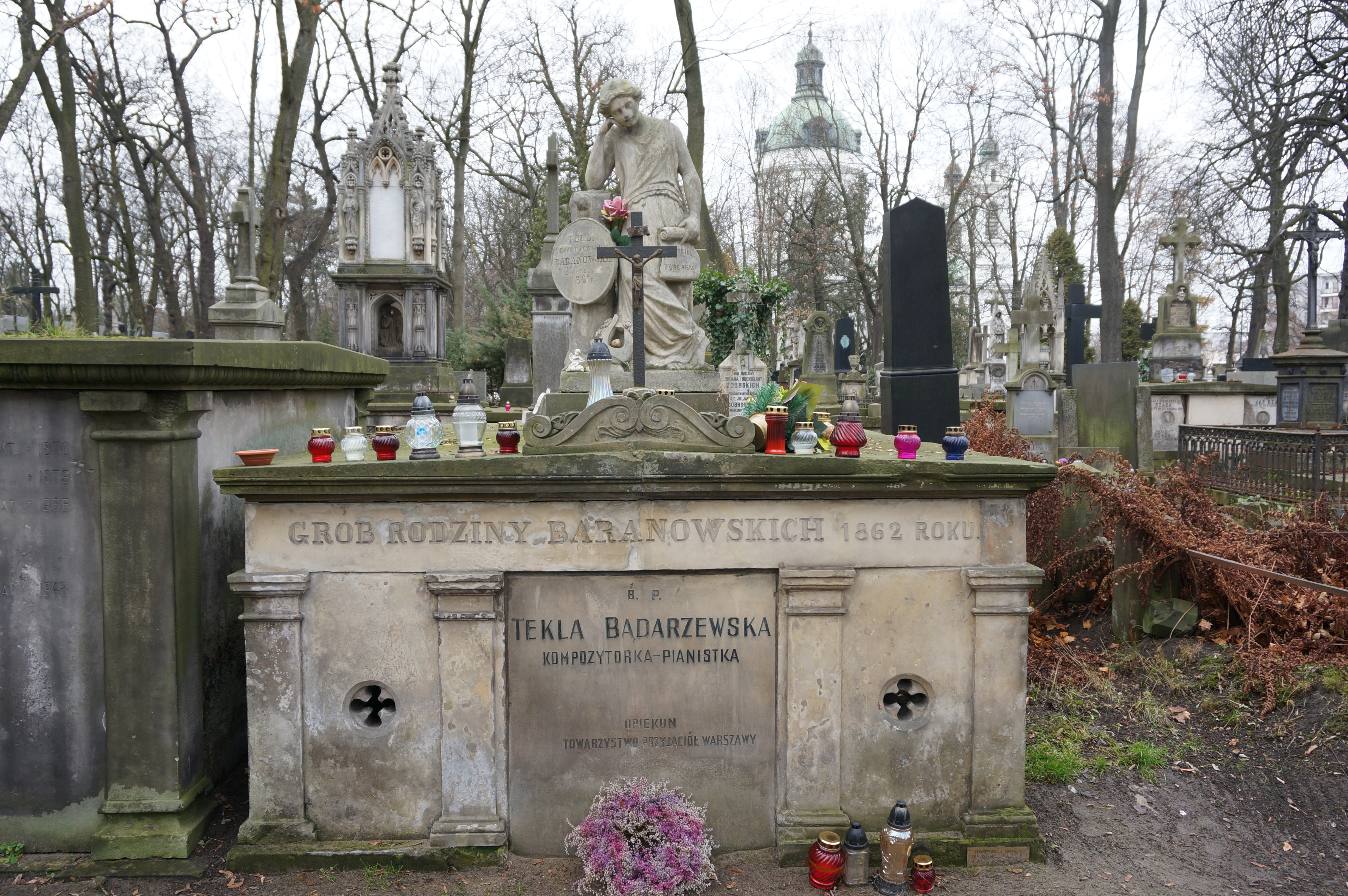 The tomb of Tekla Bądarzewska-Baranowska at the Powązki Cemetery (section 181, row 1, grave 27, 28)